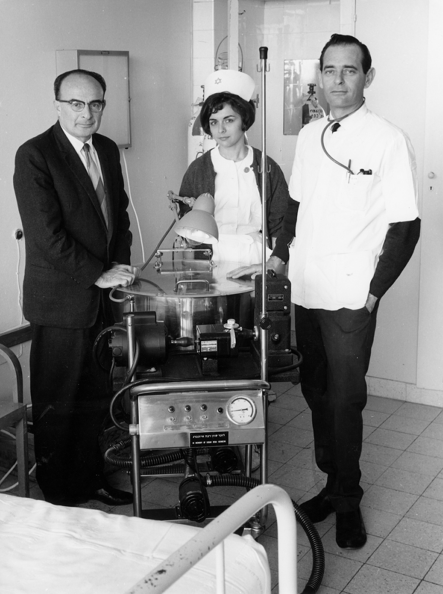 the first dialysis machine at Rambam hospital, Haifa, Israel, 1965.